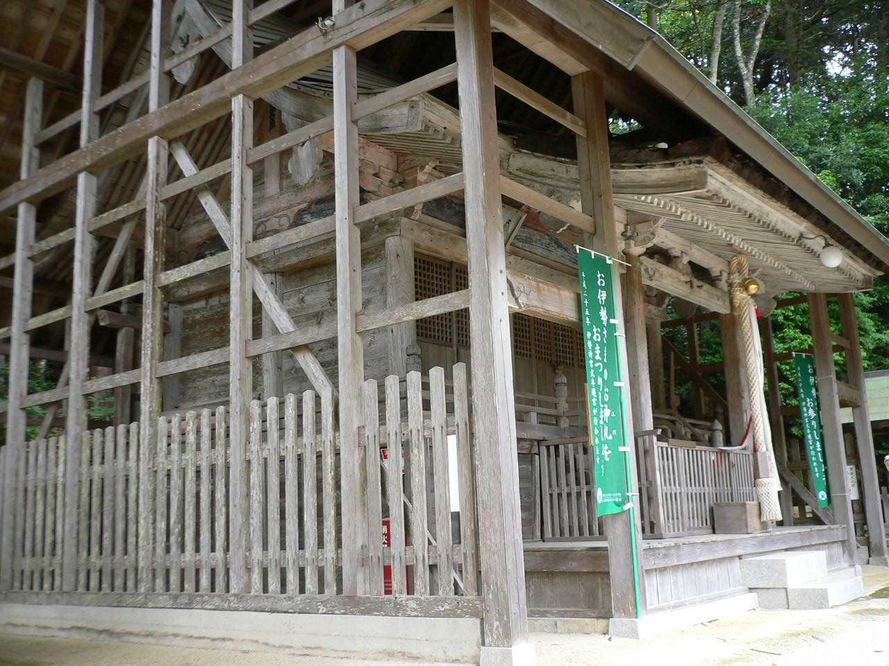 Susanoo Jinjya (Shrine) at Hyōgo Prefecture in Japan.